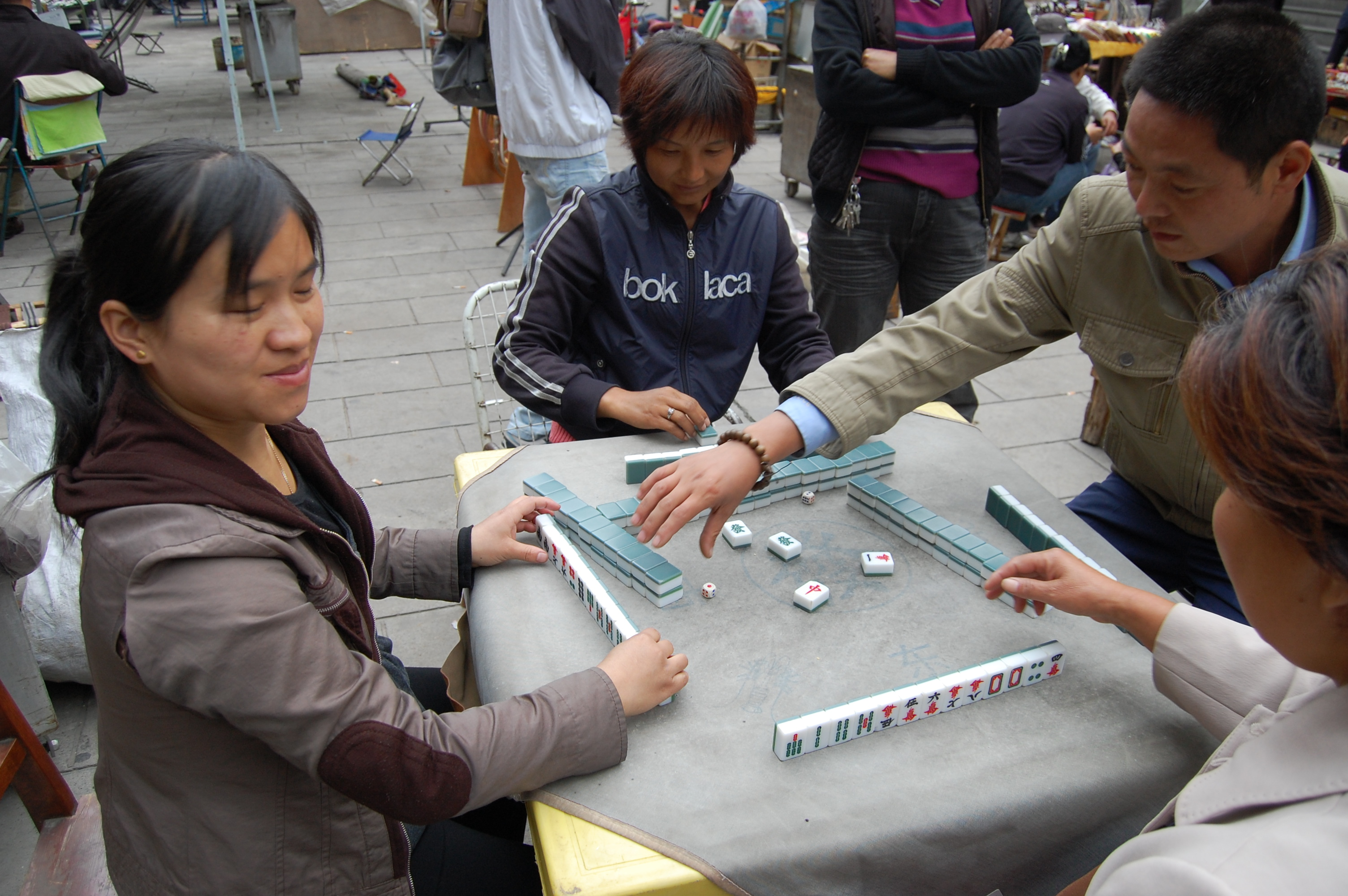 Mahjong in China